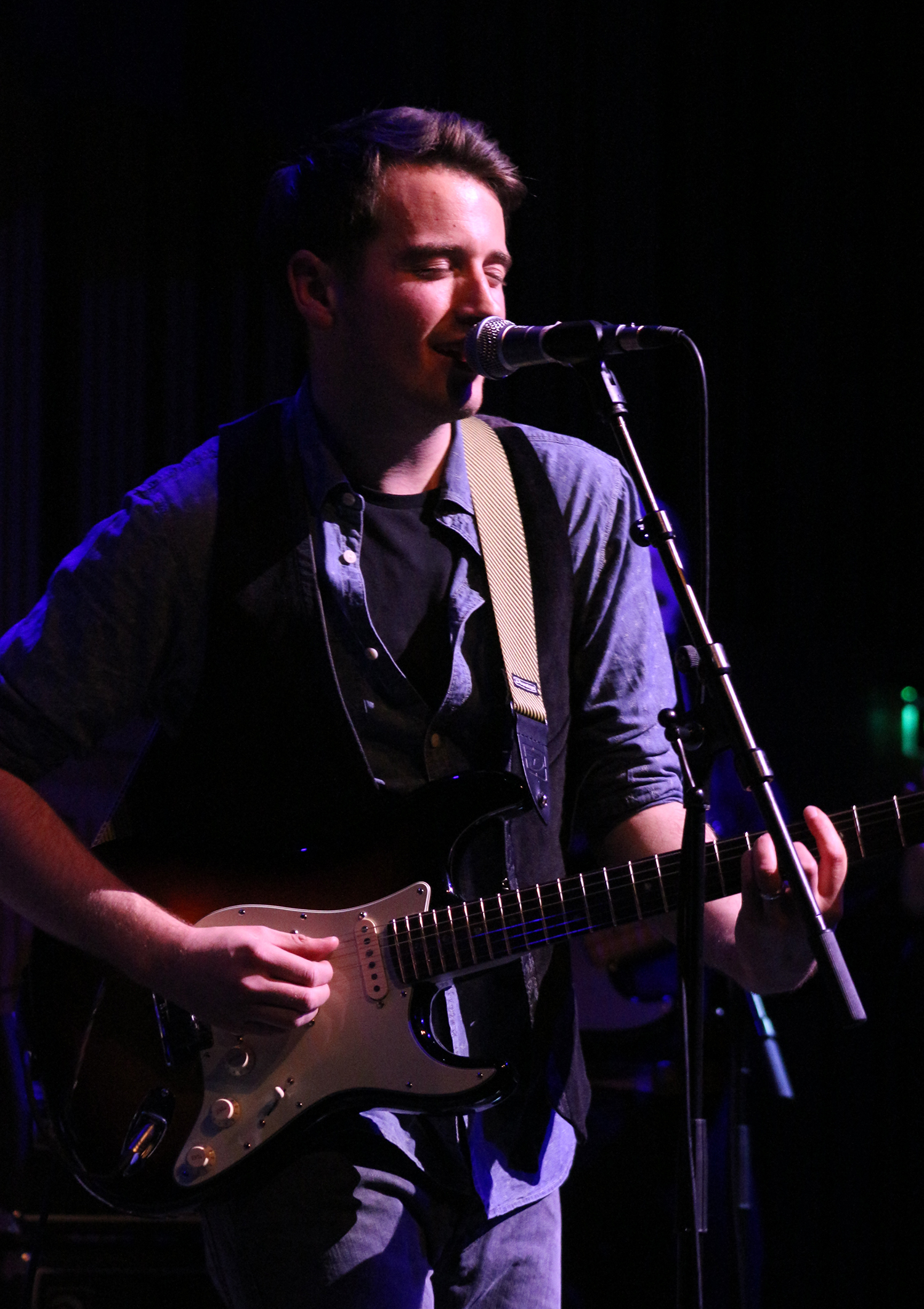 RJ Thompson live at The Sage, Gateshead - Photo by JoWhereToGo